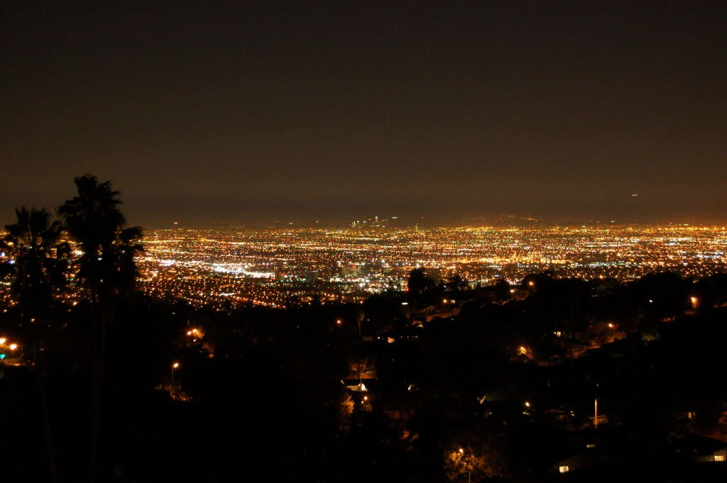 View of Los Angeles from Palos Verdes